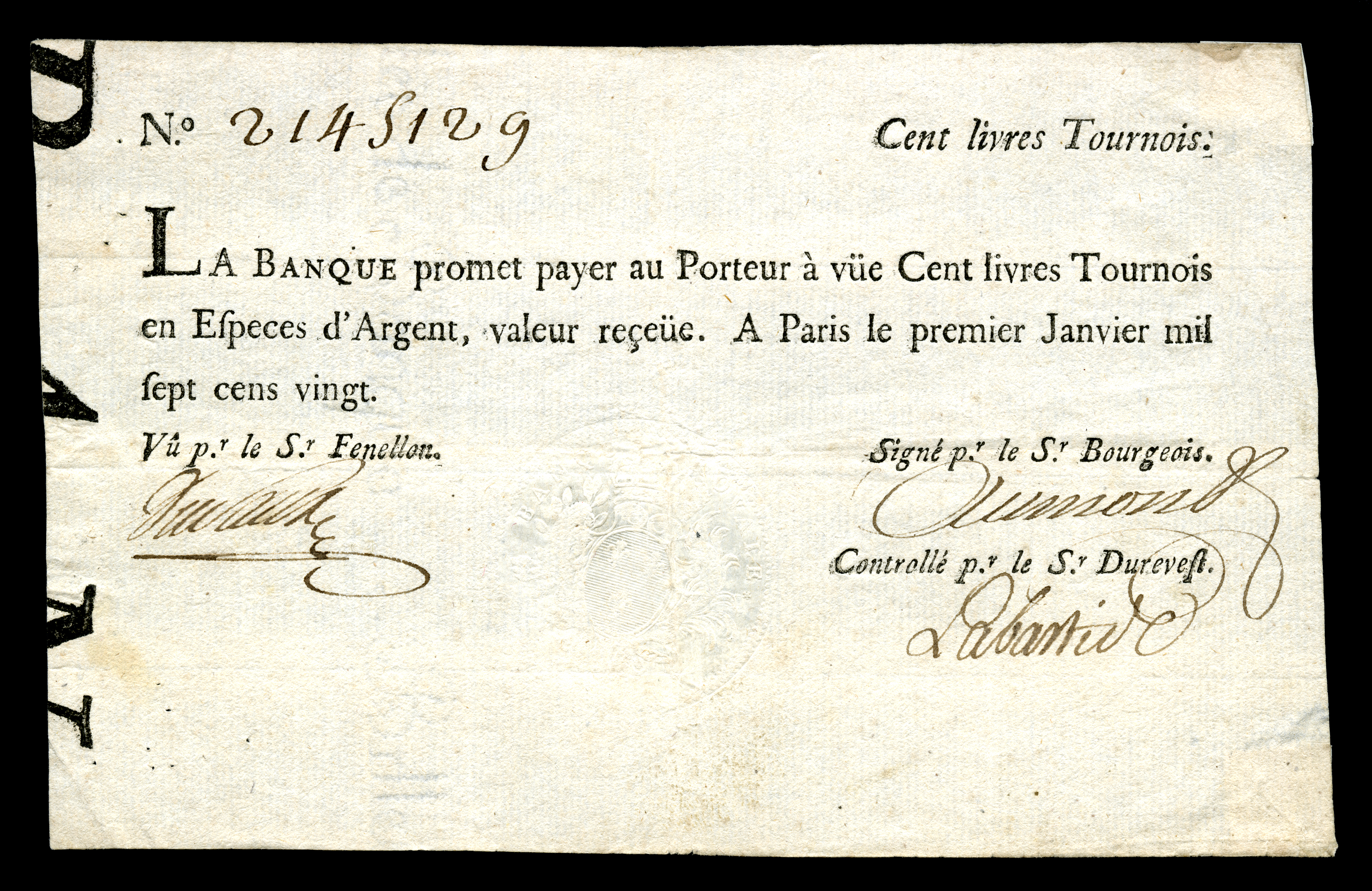 Early French paper currency issued by La Banque Royale - 100 livres Tournois, 1720 First Issue (Pick ref #A17b). See also Les proto-billets.